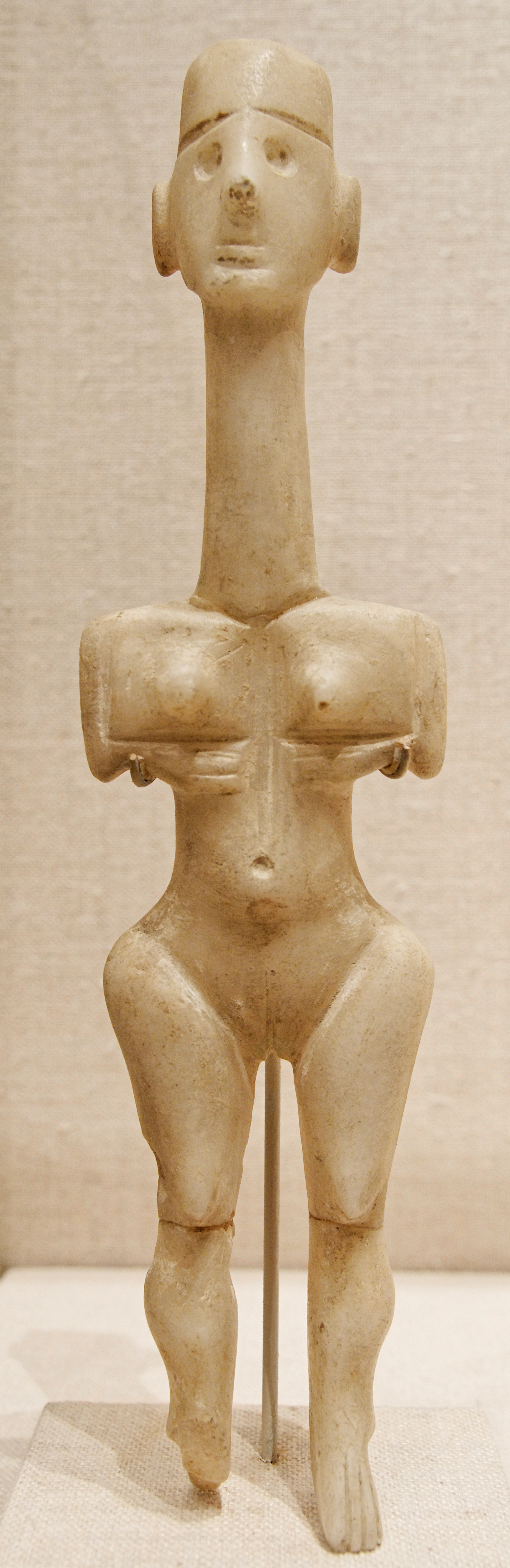 Female figure of the Plastiras type, Early Cycladic I.